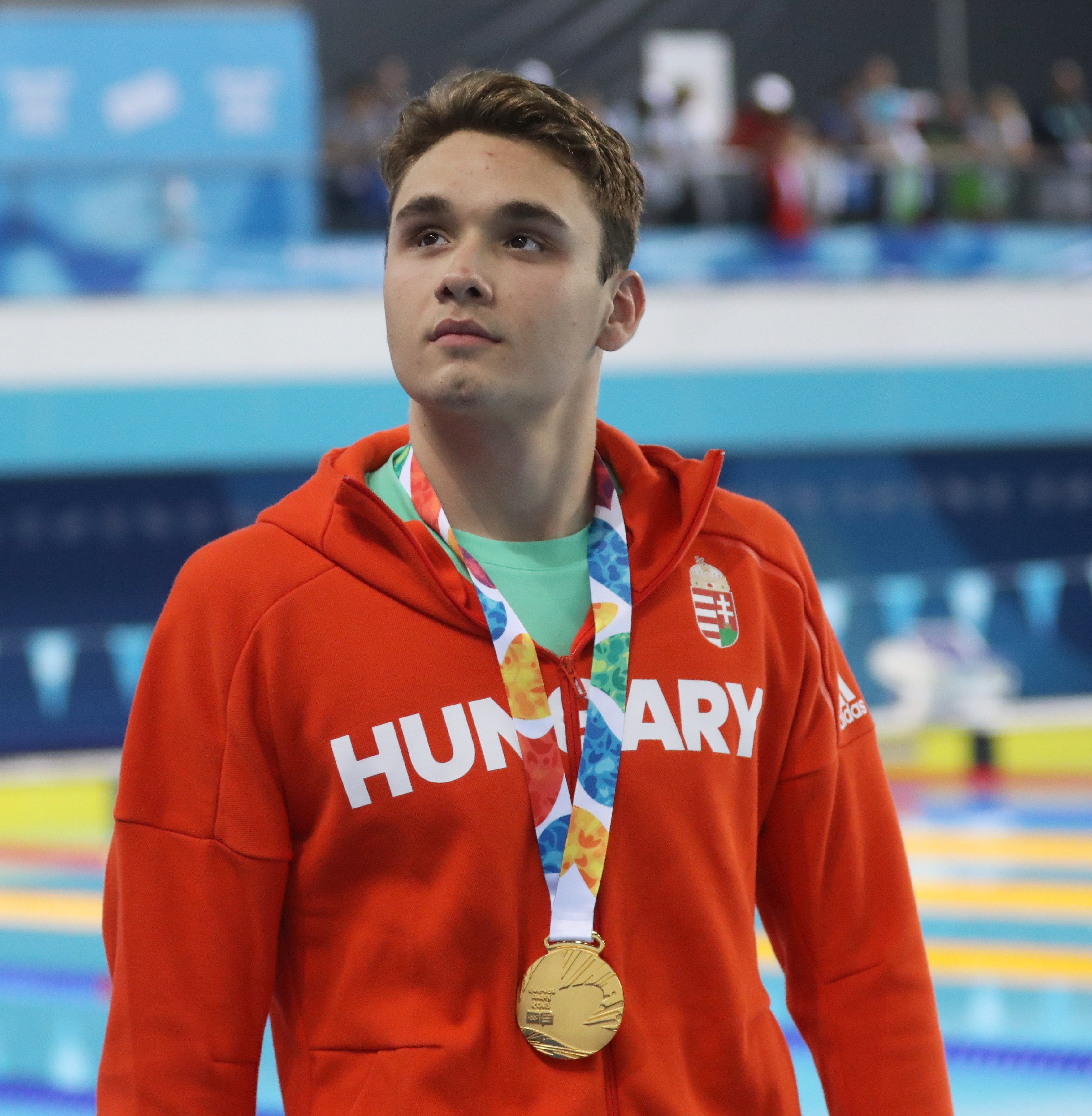 Swimming of boys' 400 m freestyle final at the 2018 Summer Youth Olympics in Buenos Aires on 7 October 2018.